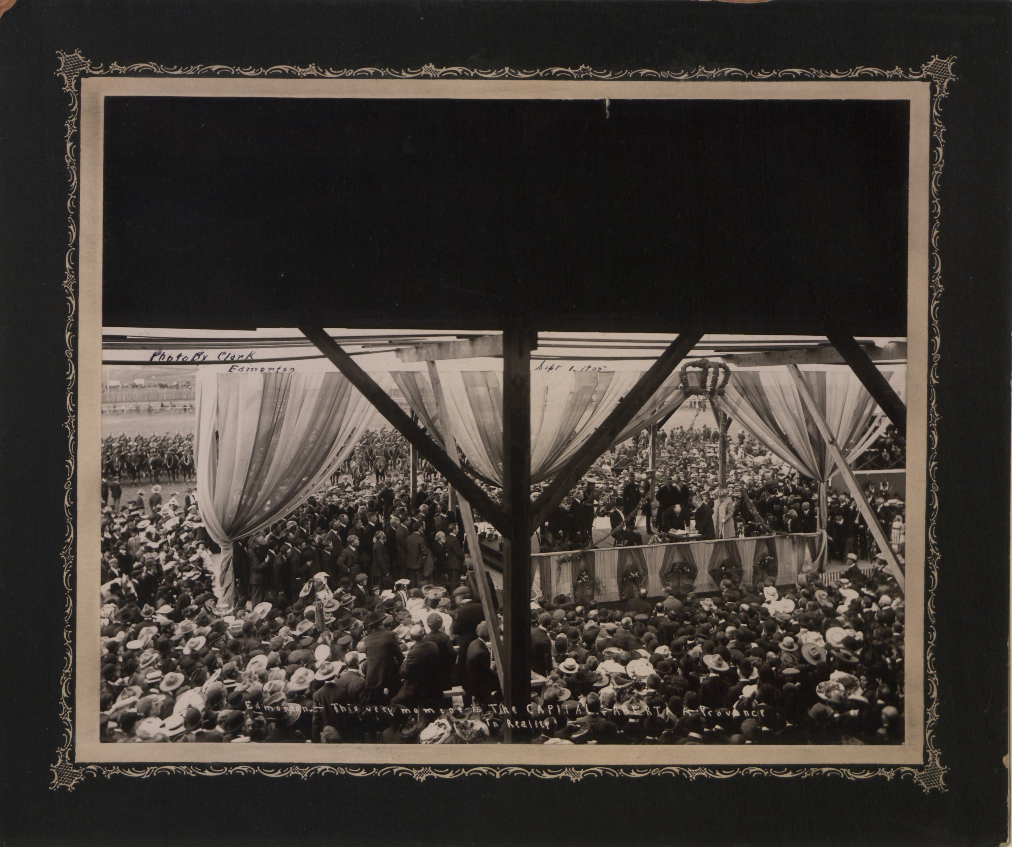 Edmonton this very moment is the capital: Alberta - a province in reality.